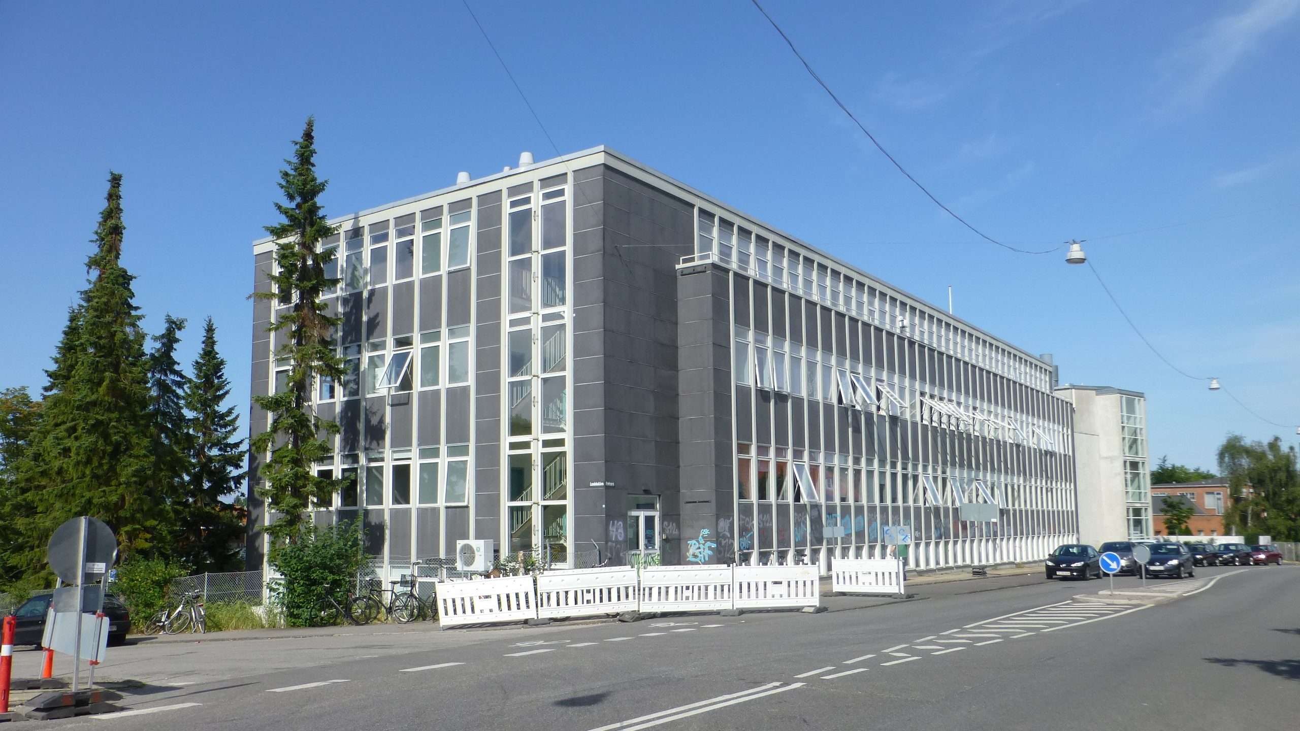 Danmarks Medie- og Journalisthøjskole at Emdrupvej in Emdrup in Copenhagen.